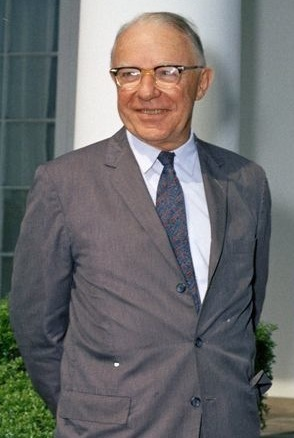 President John F. Kennedy and Others at the Signing of Bill H.J. 225 Public Law 87328, the Interstate Federal Compact for the Delaware River Basin